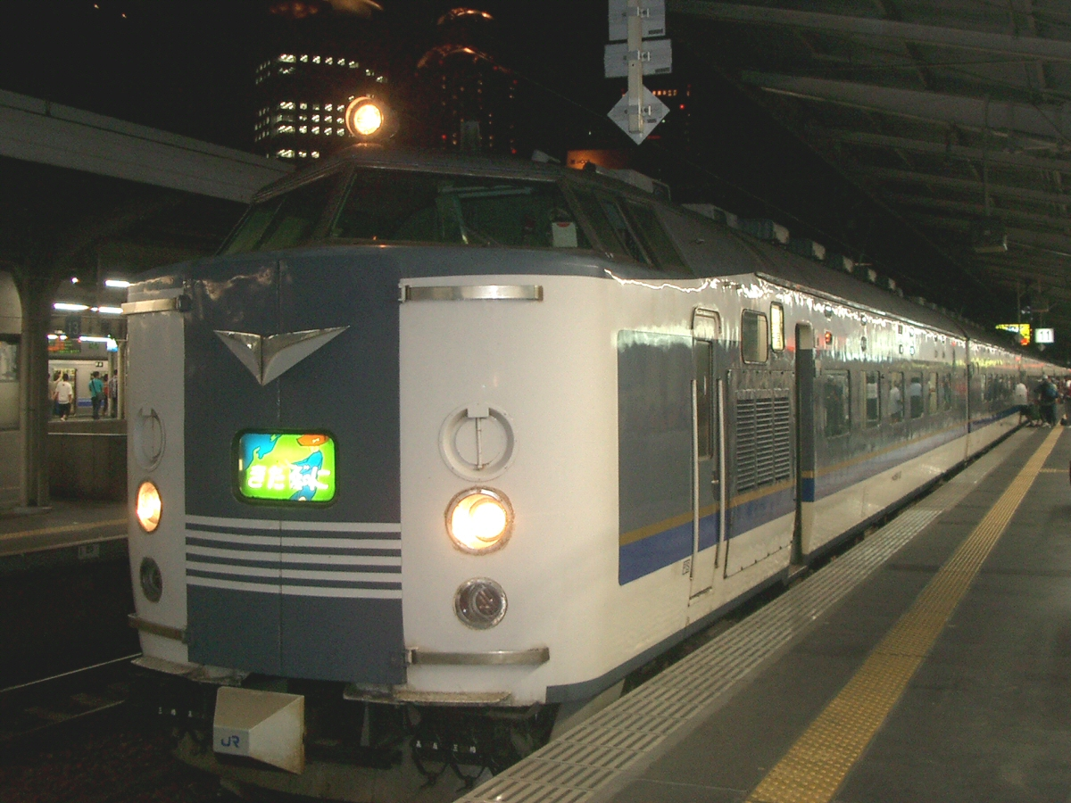 A JR West 583 series EMU at Osaka Station on a Kitaguni service